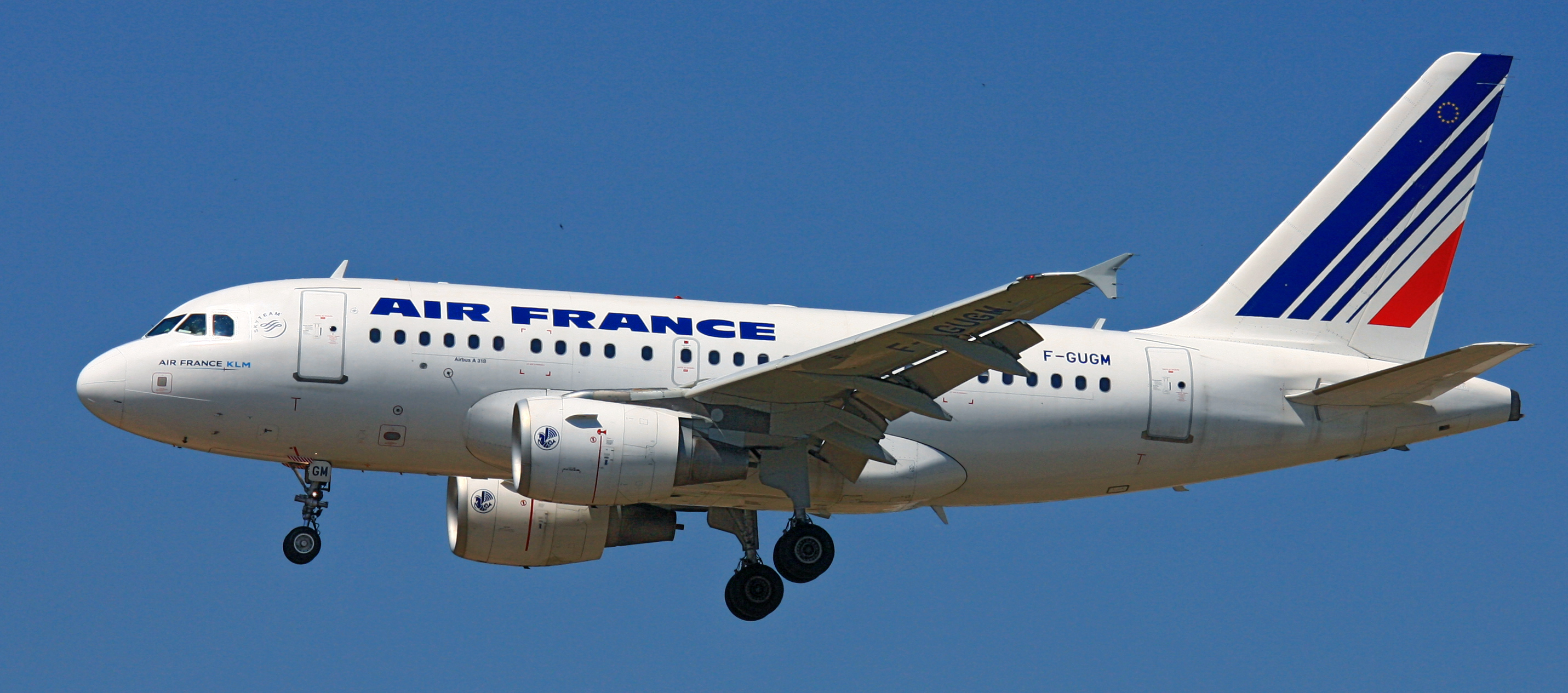 An Airbus A318 of Air France landing at Frankfurt Airport